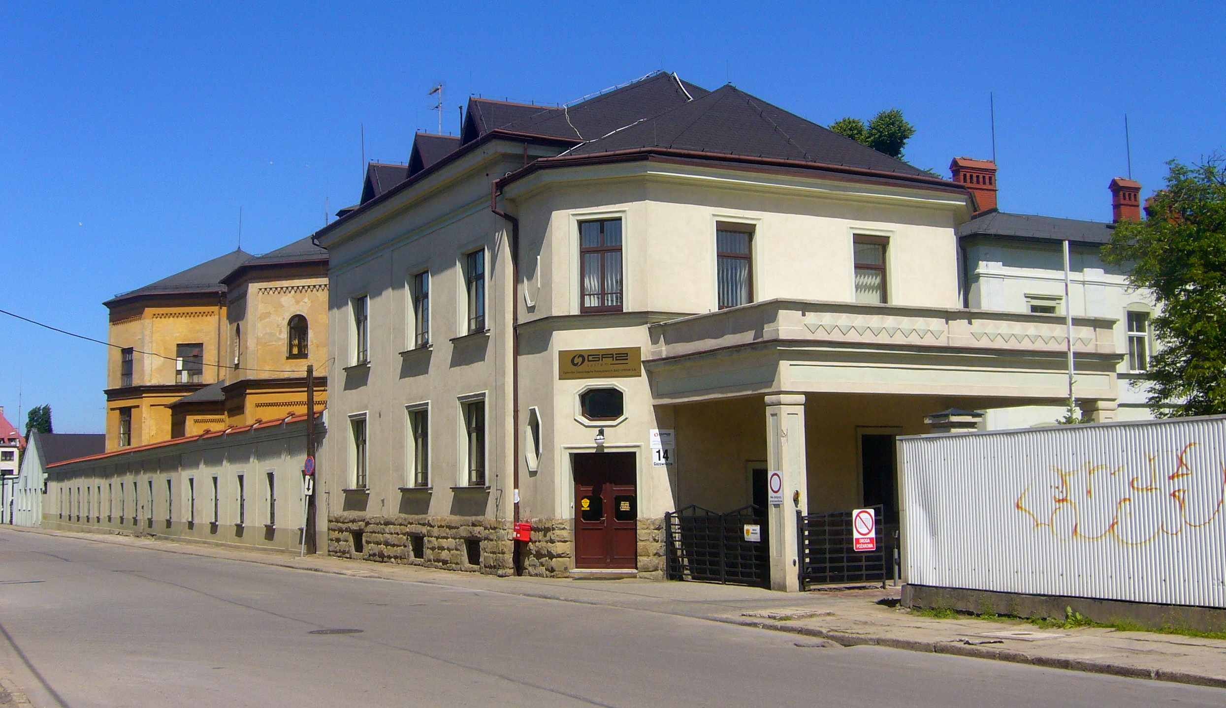 Municipal gasworks in Bielsko-Biała, Poland.